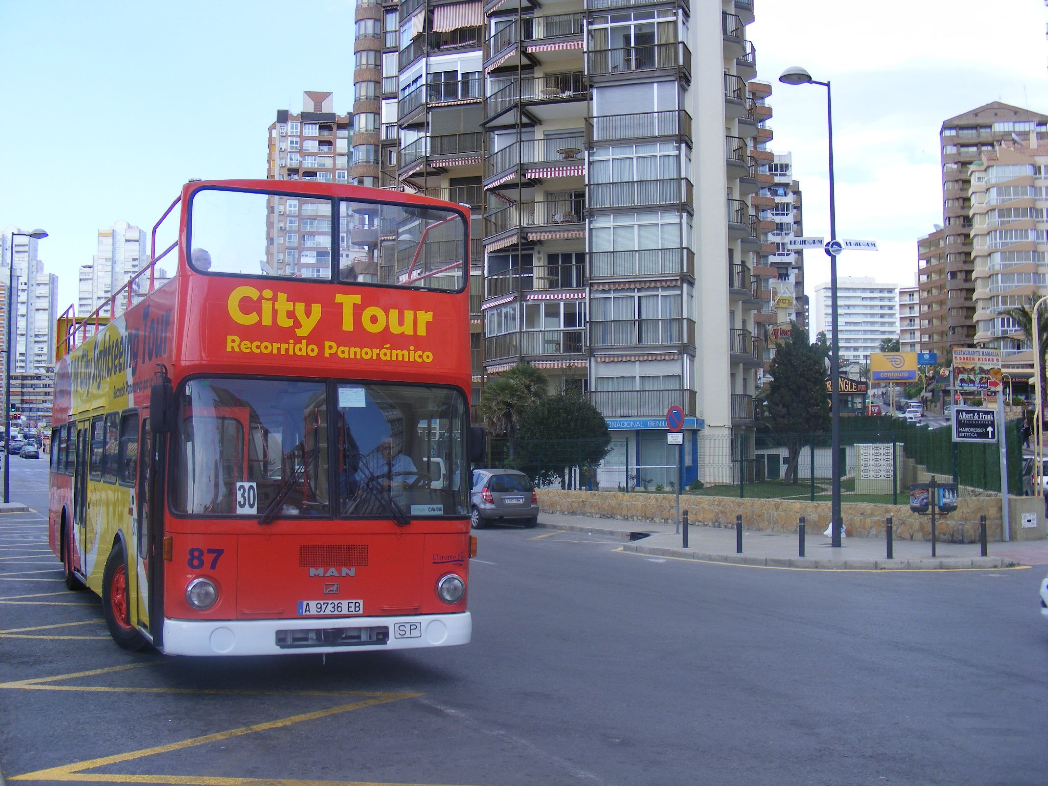 MAN Büssing Open top City Tour bus, Benidorm A 9736EB